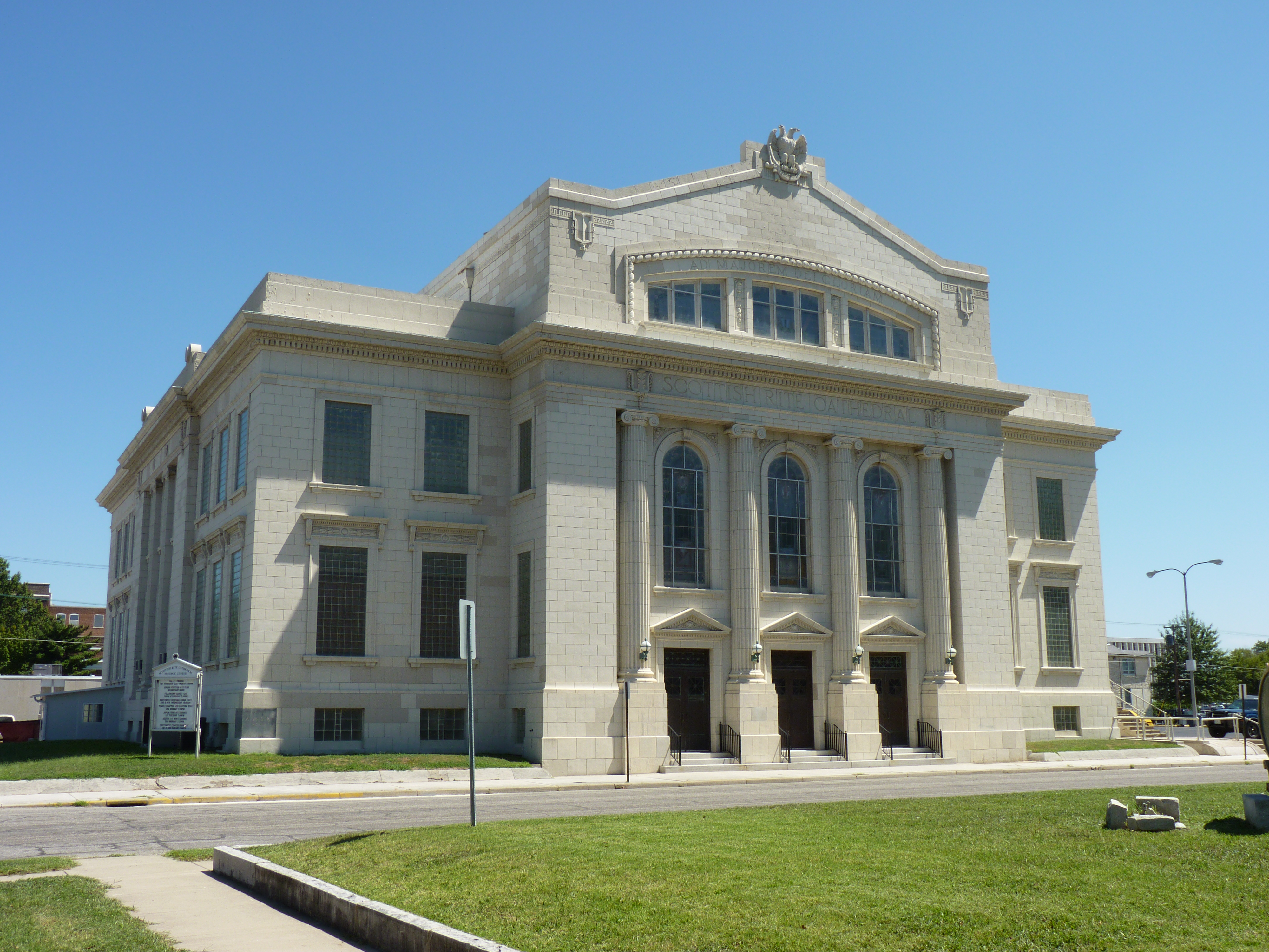 Image of the Scottish Rite Cathedral in Downtown Joplin, MO